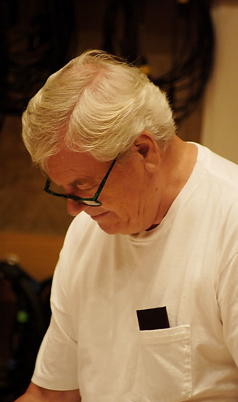 Musician's Portrait George Gruntz